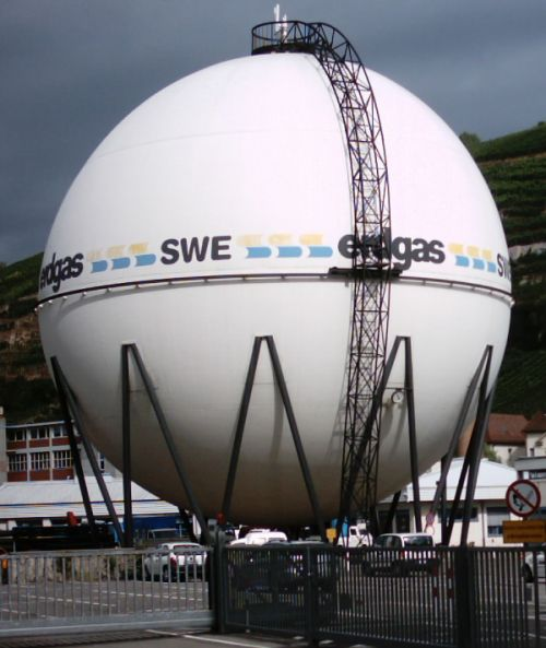 Natural gas. in Esslingen am Neckar, Germany